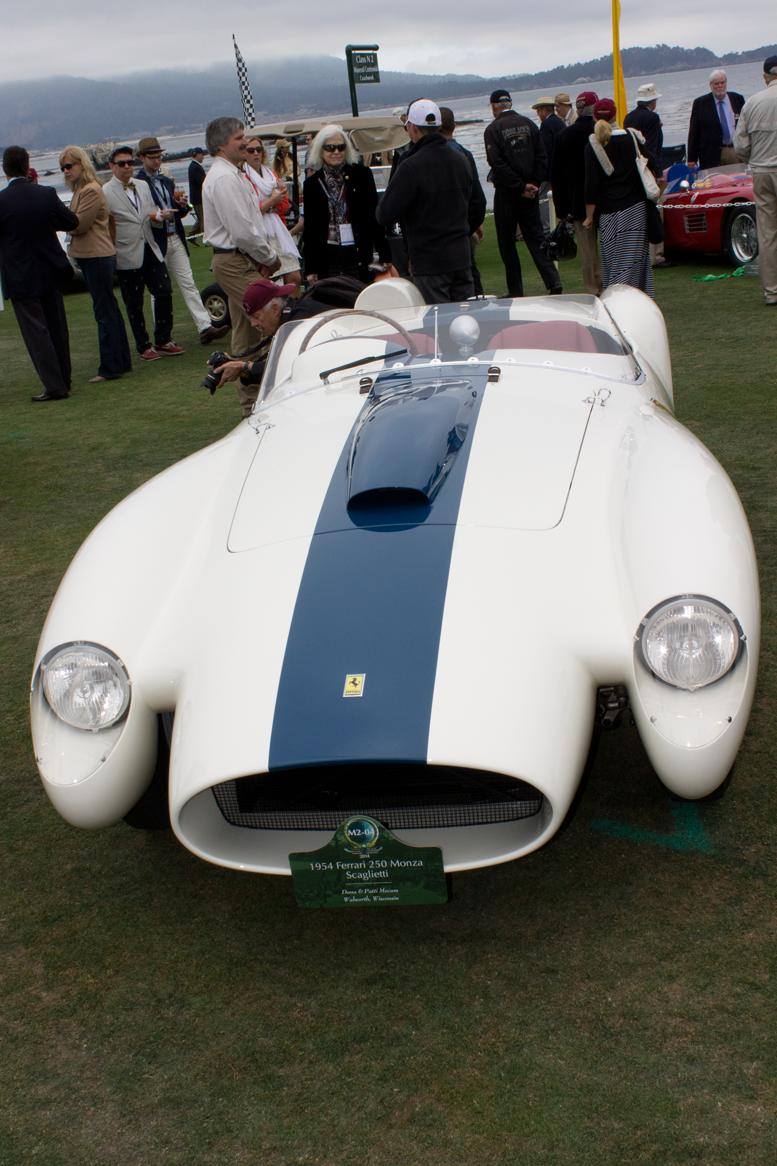 This Ferrari 250 Monza prototipo is the first of four Monzas produced in 1954. Its original body was designed and built by Pinin Farina and sold to the Milanese racing team Scuderia Guastalla run by Franco Cornacchia. It was raced in Europe for a few years, including the 1954 Grand Prix Supercortemaggiore at Monza and the 1955 Mille Miglia. In 1957, it was bought by Luigi Chinetti and sent to Sergio Scaglietti, who re-bodied it with what is arguably the first pontoon fender Ferrari body ever created. It is therefore the precursor of the legendary pontoon fender Testa Rossa. With this new body, it raced in the United States, where it earned the name "The Loud Mouth".